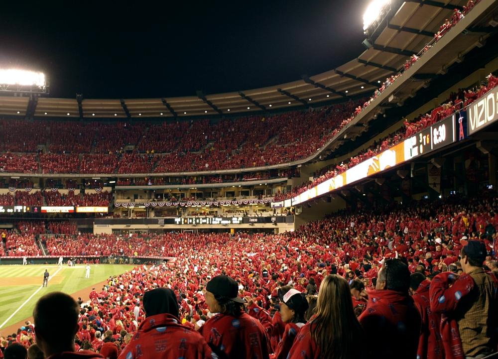 Baseball spectators at a Los Angeles Angels of Anaheim home game wearing promotional sleeved blankets in a successful attempt to break the Guinness World Records' record for the largest gathering of people wearing fleece blankets. {1}This photograph was taken with an Olympus E-510 DSLR camera